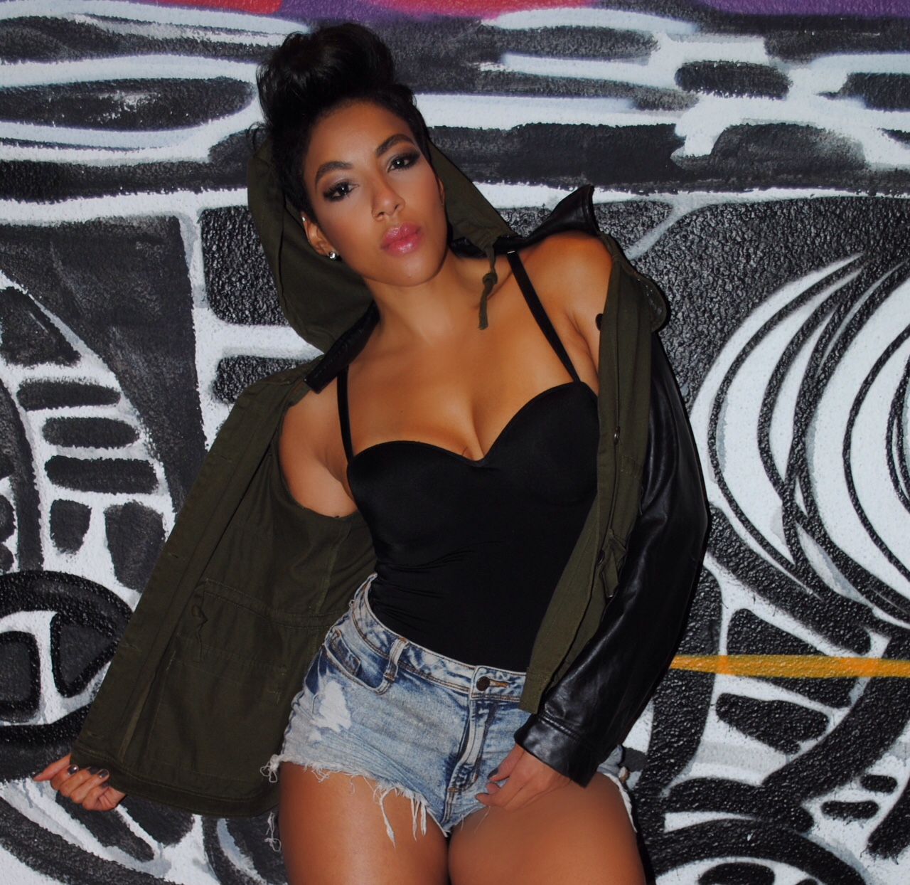 Nyla solo pic Temp 1